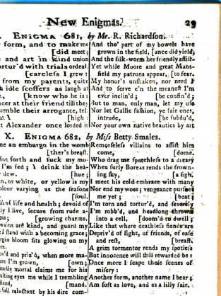 Smales meets Richardson in Ladies Diary Almanac....The Ladies' Diary: Or Woman's Almanack, for the Year of Our Lord 1786